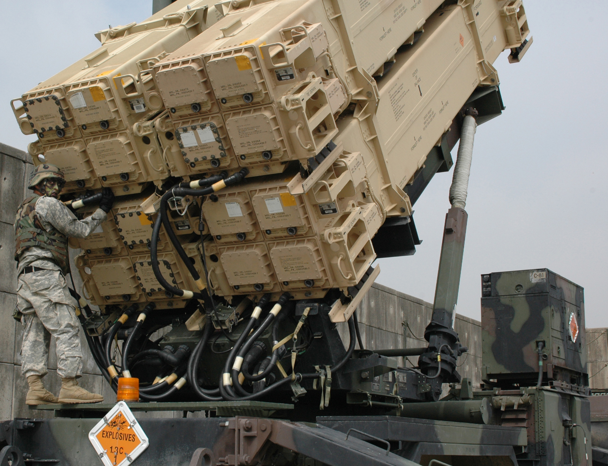 Spc. Daniel Nebrida, from Battery C, 1st Battalion, 43rd Air Defense Artillery Regiment, 35th Air Defense Artillery Brigade, 2nd Infantry Division in Osan, South Korea, performs a maintenance check on a Patriot missile. This photo appeared on Patriot PAC-3 Configuration 3 MSE missile launcher